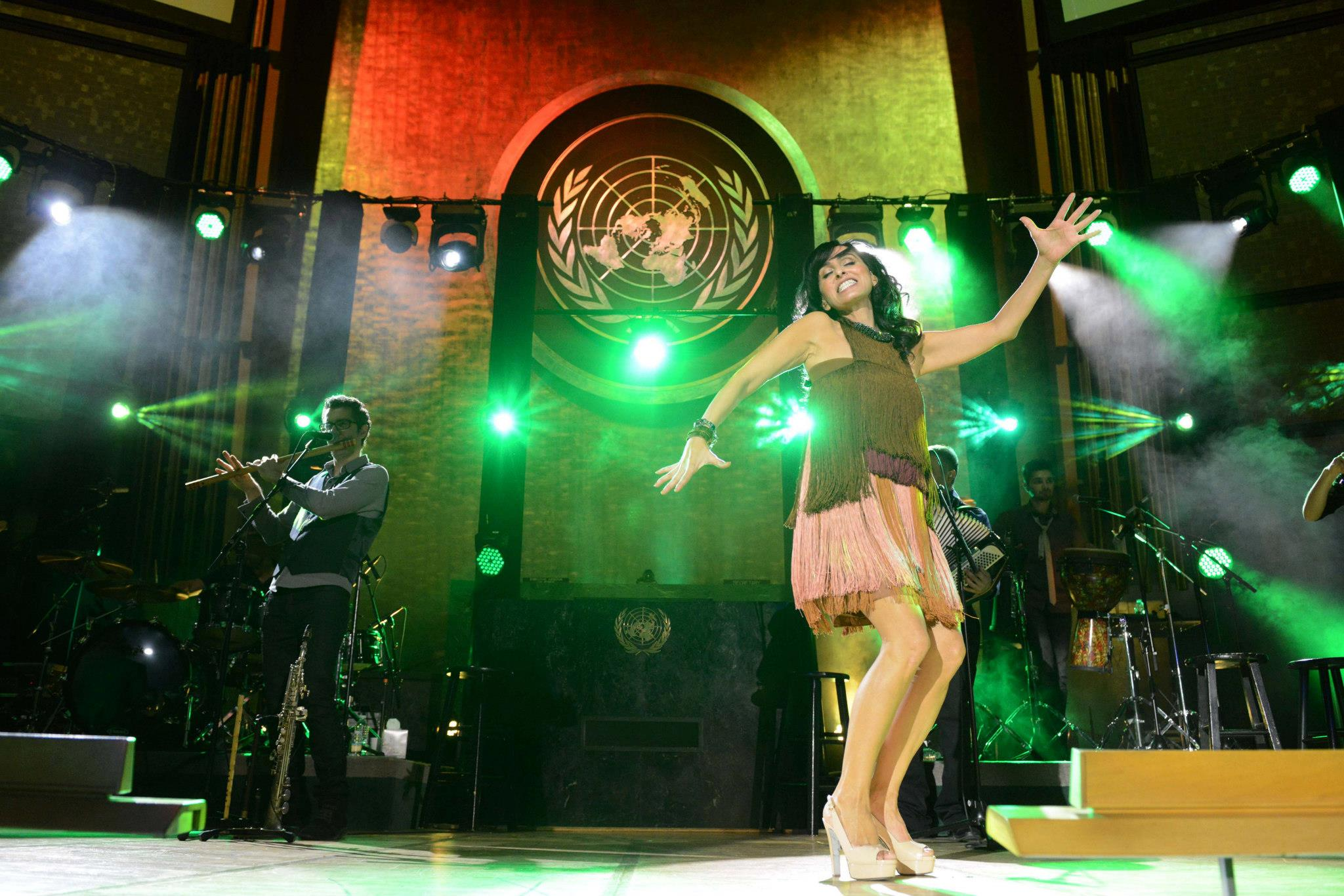 Rita Jahanforouz - Persian-Israeli Singer in a concert at the United Nations in 2013 Photo: Persian Dutch Network